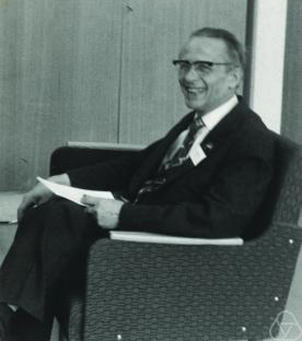 Jonas Kubilius (cropped version of the original